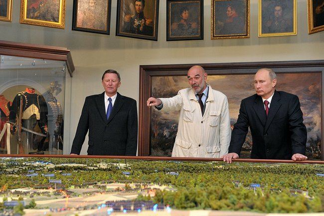 Director of Borodino Museum Mikhail Cherepashenets with Vladimir Putin and Sergei Ivanov, September 2, 2012.